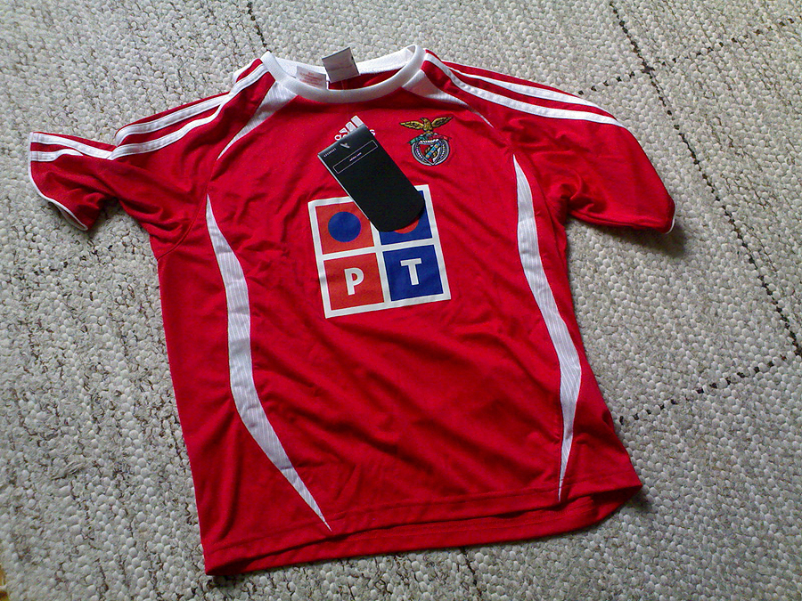 Benfica shirts for kids.